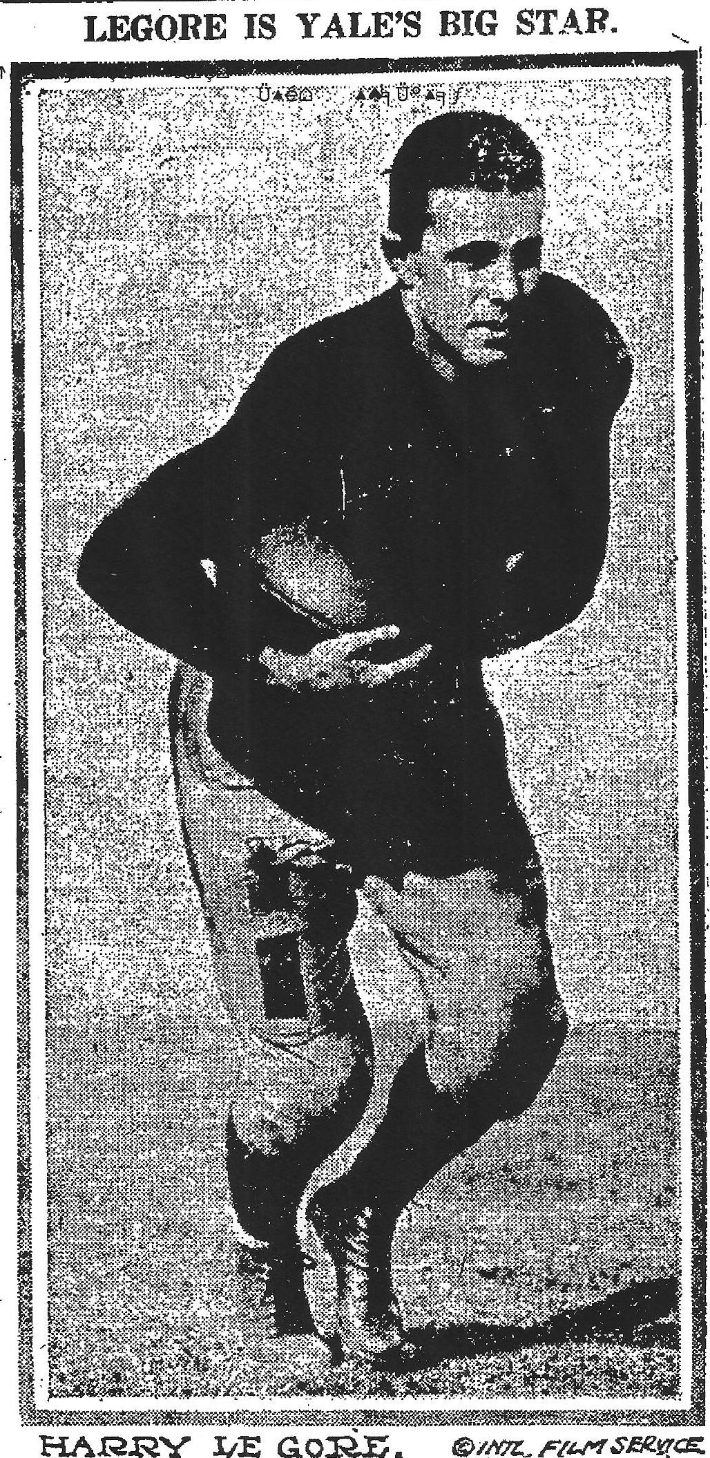 Image of Harry LeGore